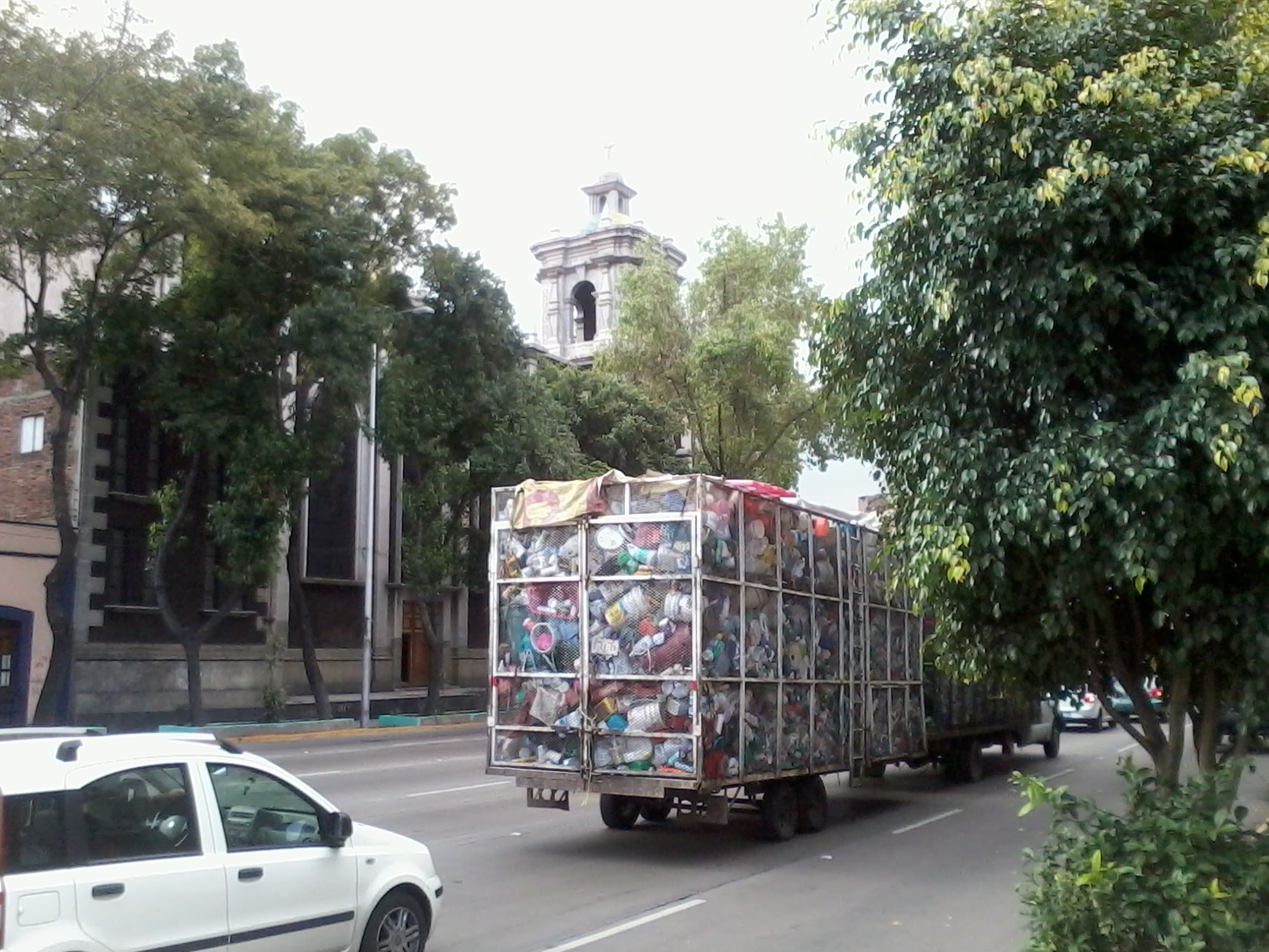 A truck transporting plastic waste (plastic containers) (Patriotismo Avenue and Eje 4 Sur Benjamín Franklin, Mexico City)